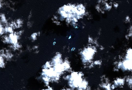 Landsat 7 image of Marotiri, Austral Islands, French Polynesia